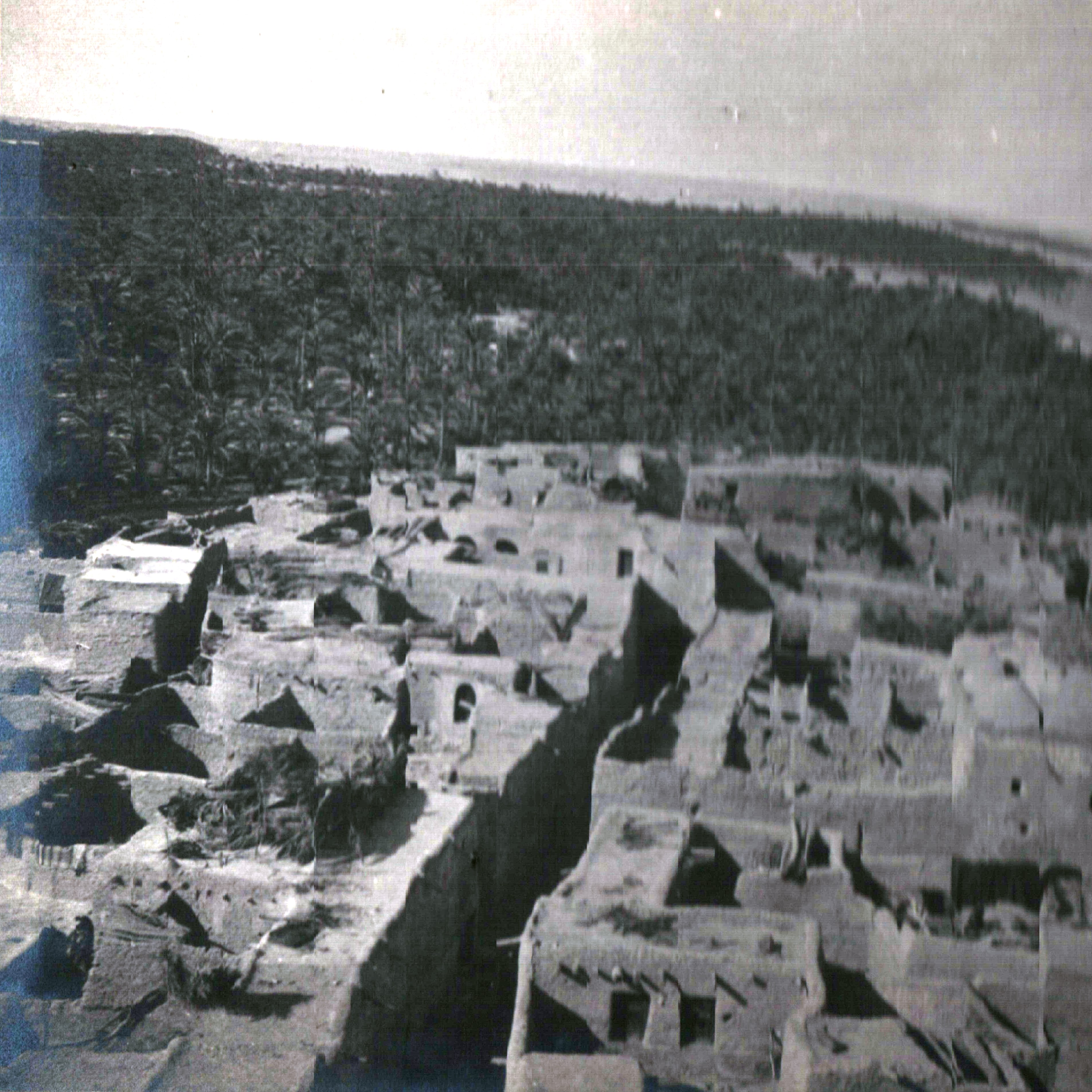 Views and photos of the Sahara desert and other regions in Africa.